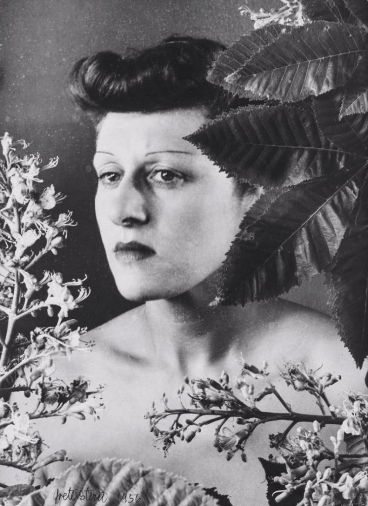 Grete Stern (1904-1999): Self-portrait, signed and dated 1956